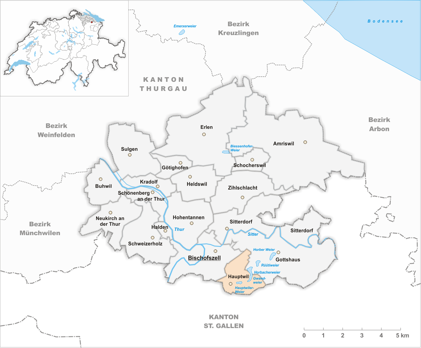 Municipality Hauptwil